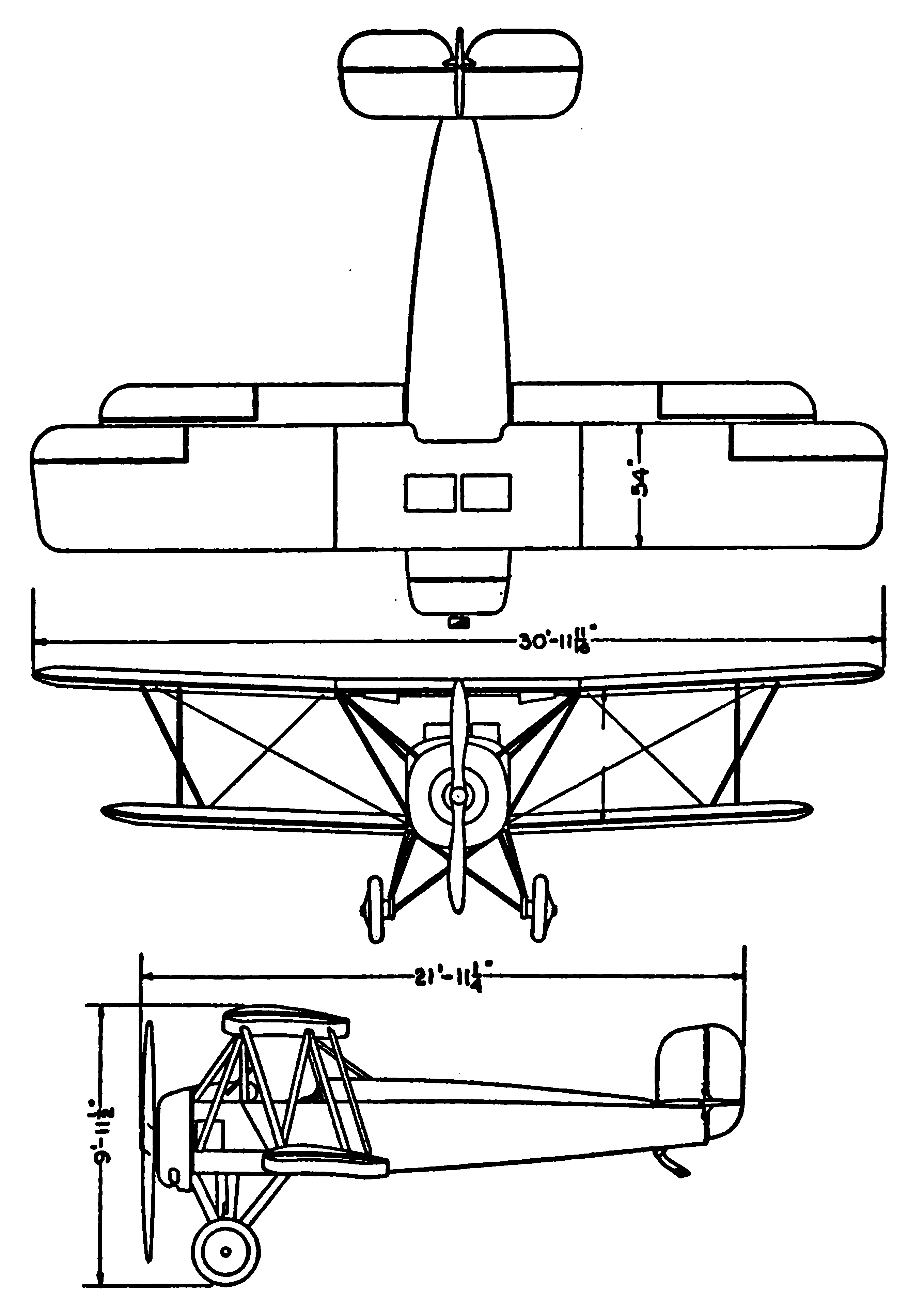 Dayton-Wright TA-3 Chummy 3-view drawing